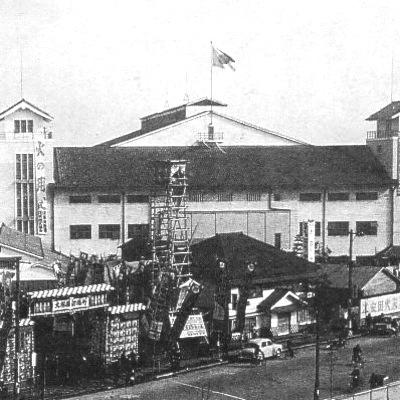 Kuramae Kokugikan in 1950s